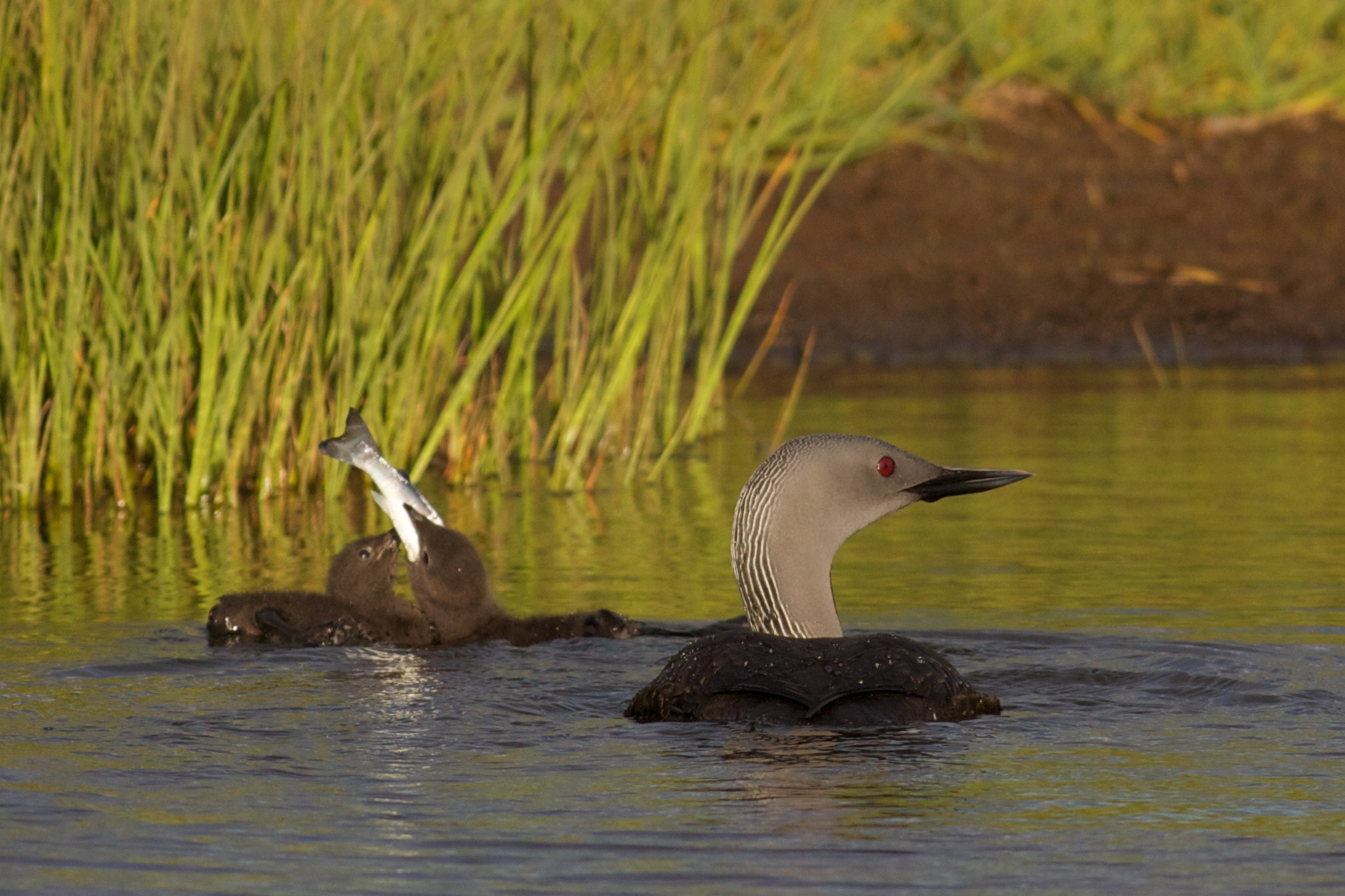 A young red-throated loon juvenile eating a proportionally very large fish